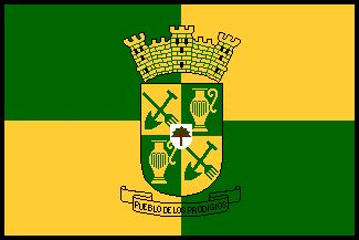 Flag of Sabana Grande